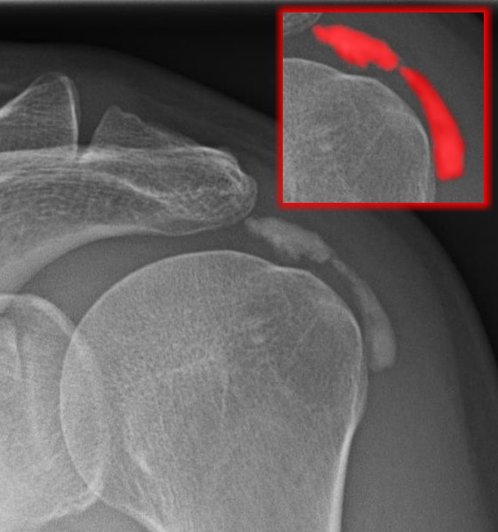 An X-ray image showing bursitis in the shoulder